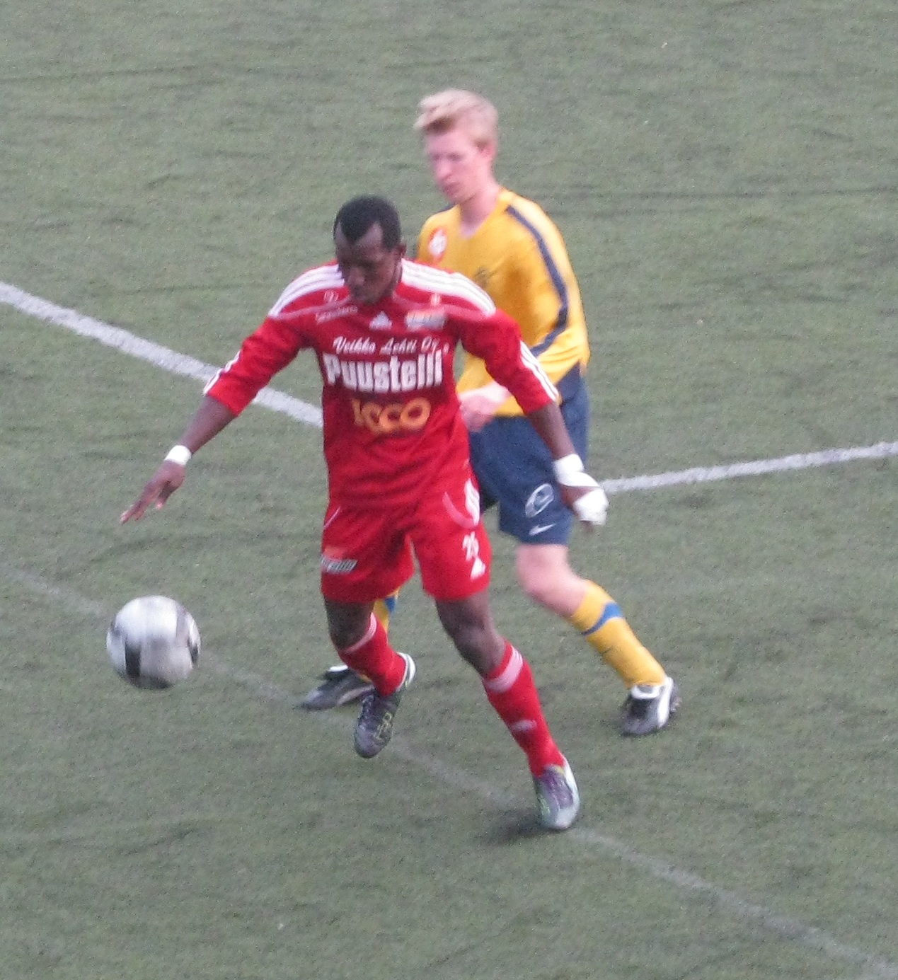 Mamadou Konate, FC Jazz vs Pallo-Iirot 2010.